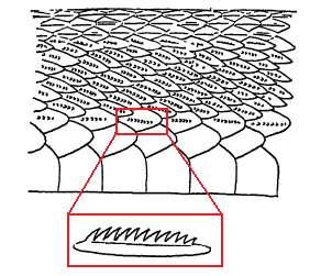 Scales of Echis carinatus (edited version of original file)